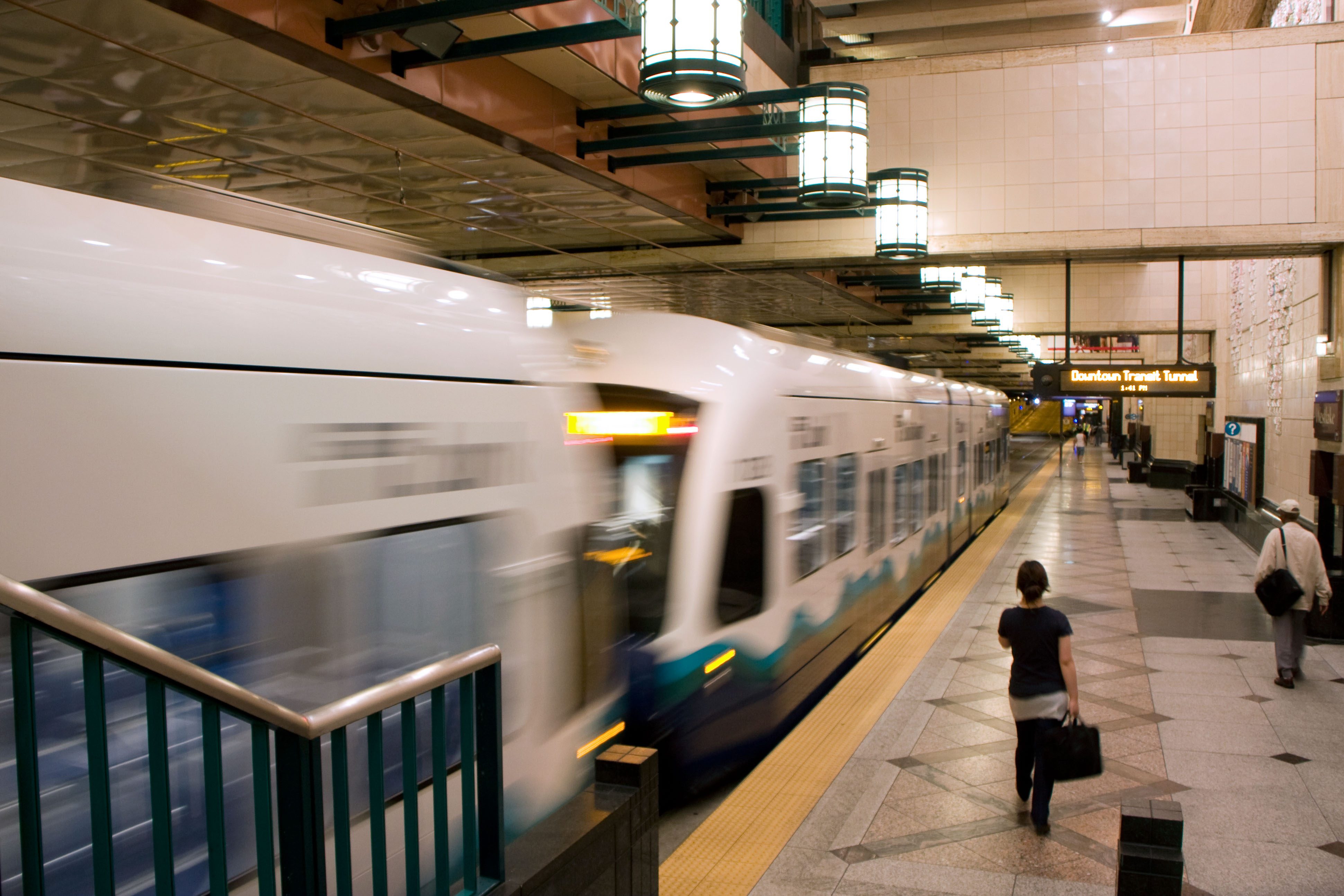 WE5_Link_2people_0609